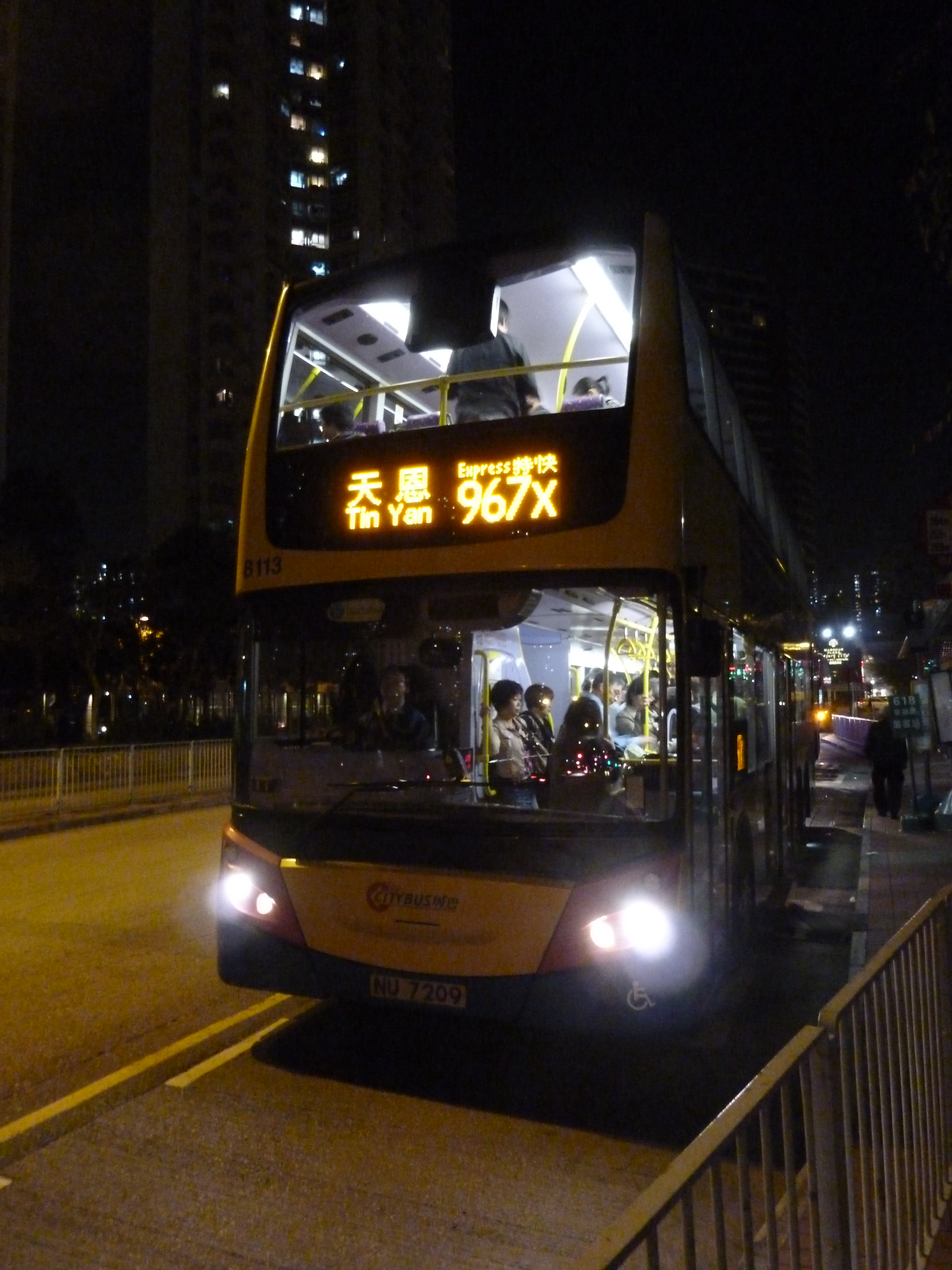 Citybus Route 967X (Tin Lung Road, Tin Shui Wai)中文（香港）: 城巴967X線 (天水圍天龍路)